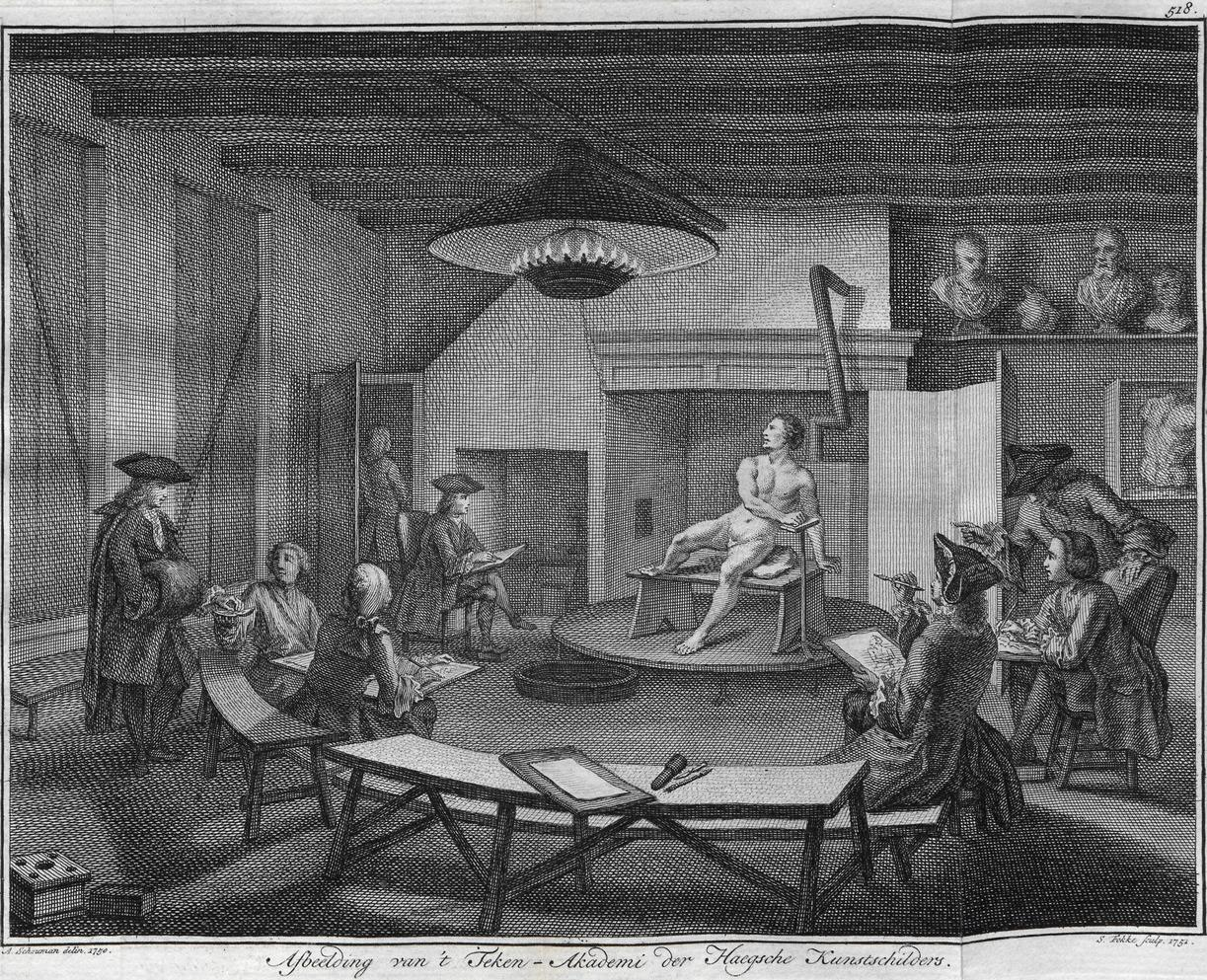 Drawing Academy of the Hague Painters in 1751.